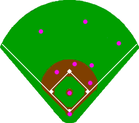 User:PSzalapski made this image and released it into the public domain. Baseball positioning, the shift